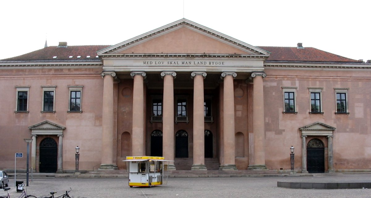 Copenhagen District Court